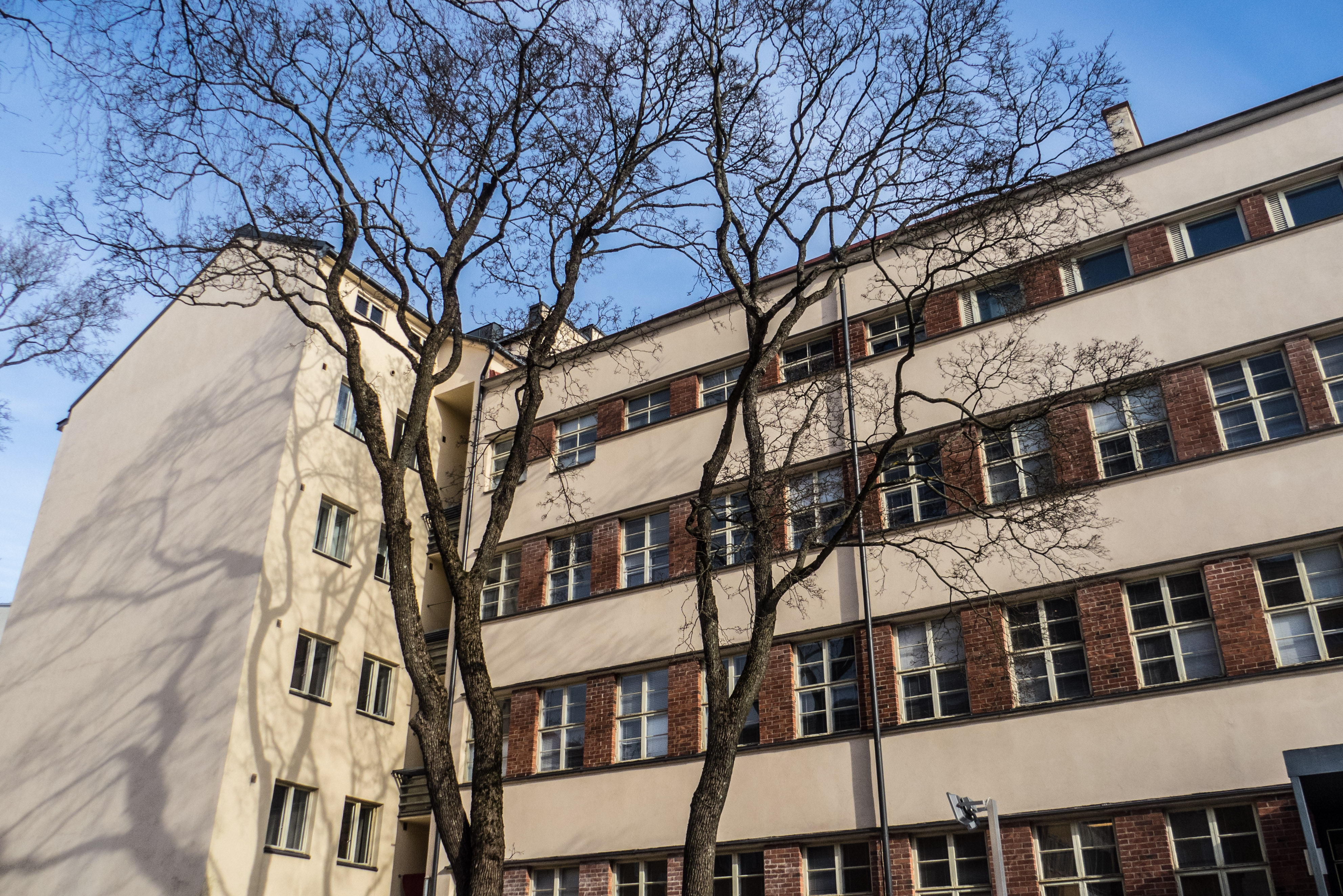 Building built for company Seres (1917–1975) in the 1930s. Now used for public sector offices. Seres was known for Sisu pastilles, competitors to Swedish Läkerol. Architect Eero Urpola 1937. Seres operated here from 1937 until 1973 when the factory moved to Aura.